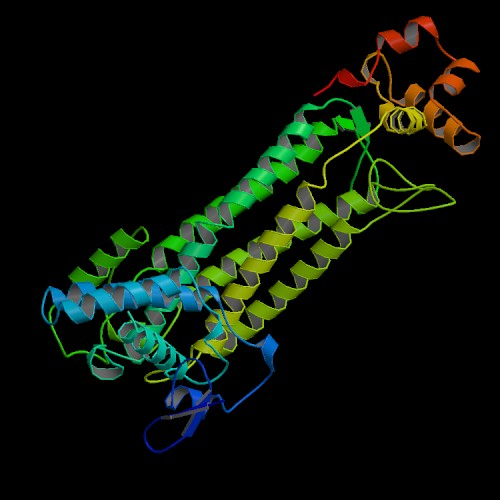 Recombinant enzyme Fumarase from Saccharomyces cerevisiae.